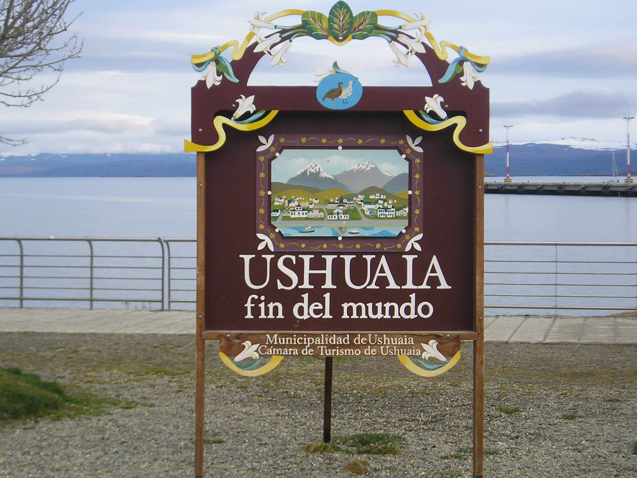 Ushuaia, Argentina - a sign promoting the town to be at "the end of the world"